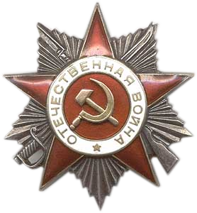 Soviet Order Of The Patriotic War (2st Class)